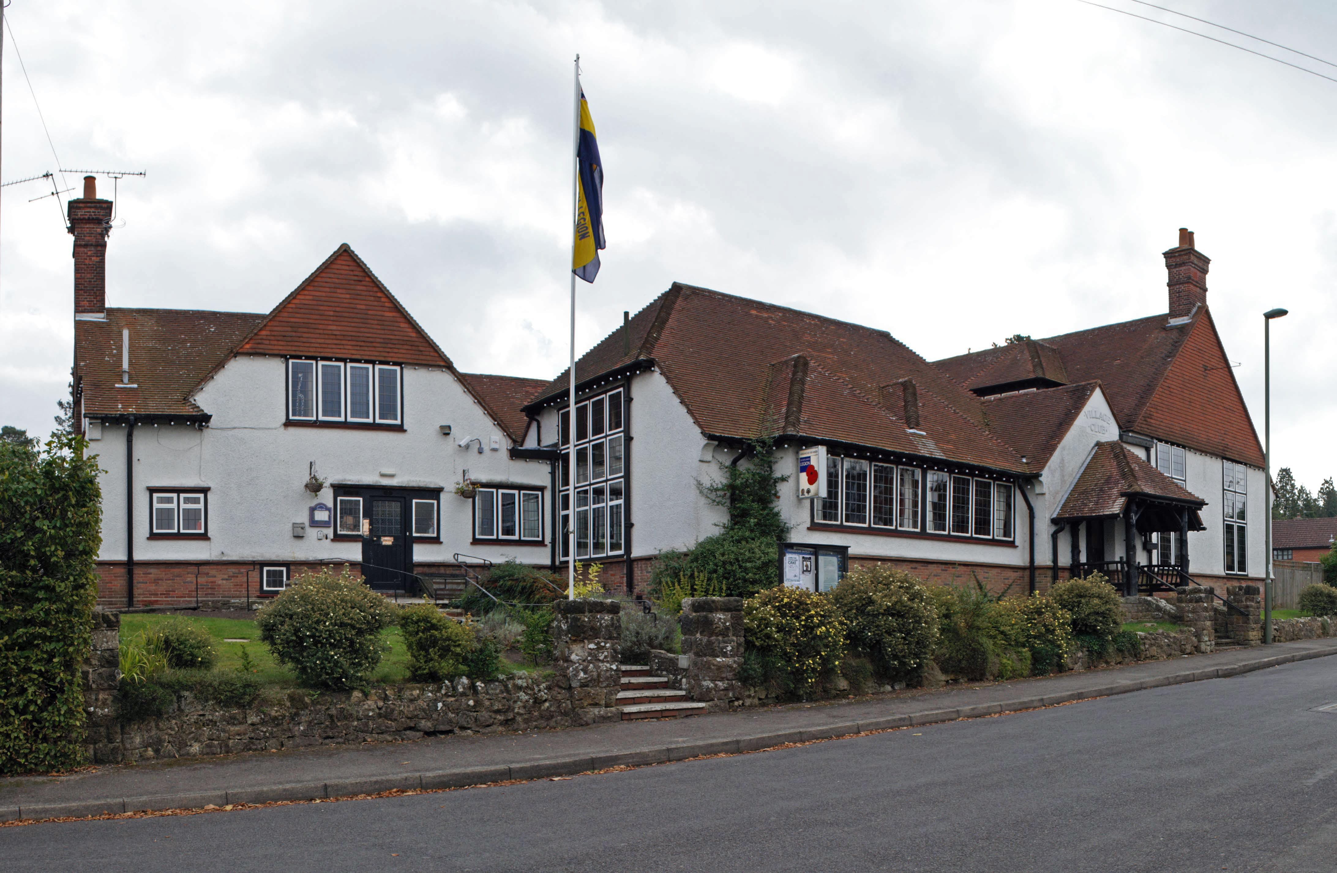 Beacon Hill, Surrey, Village Club. A stitch of 3 images